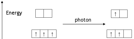 Showing the excitation of an electron to an unoccuoied higher energy d-orbital.